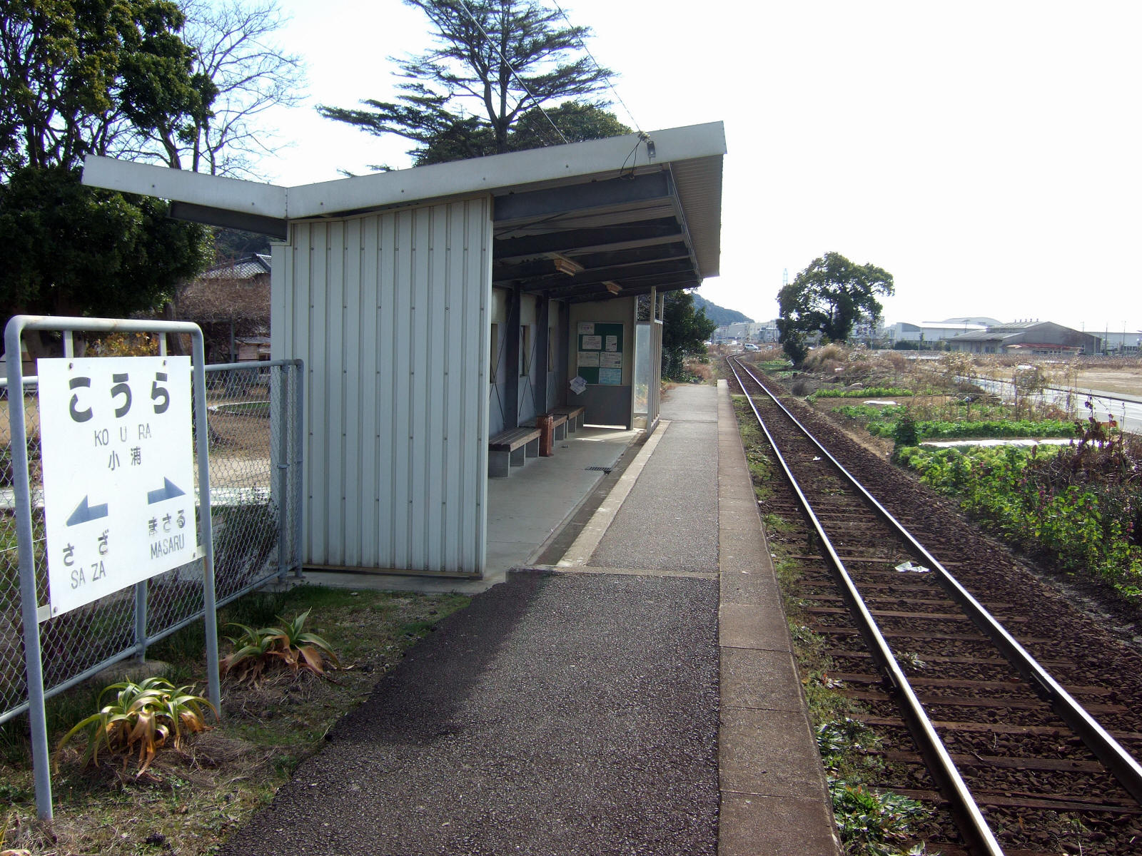 松浦鉄道小浦駅（Matsuura Railway Koura Station）